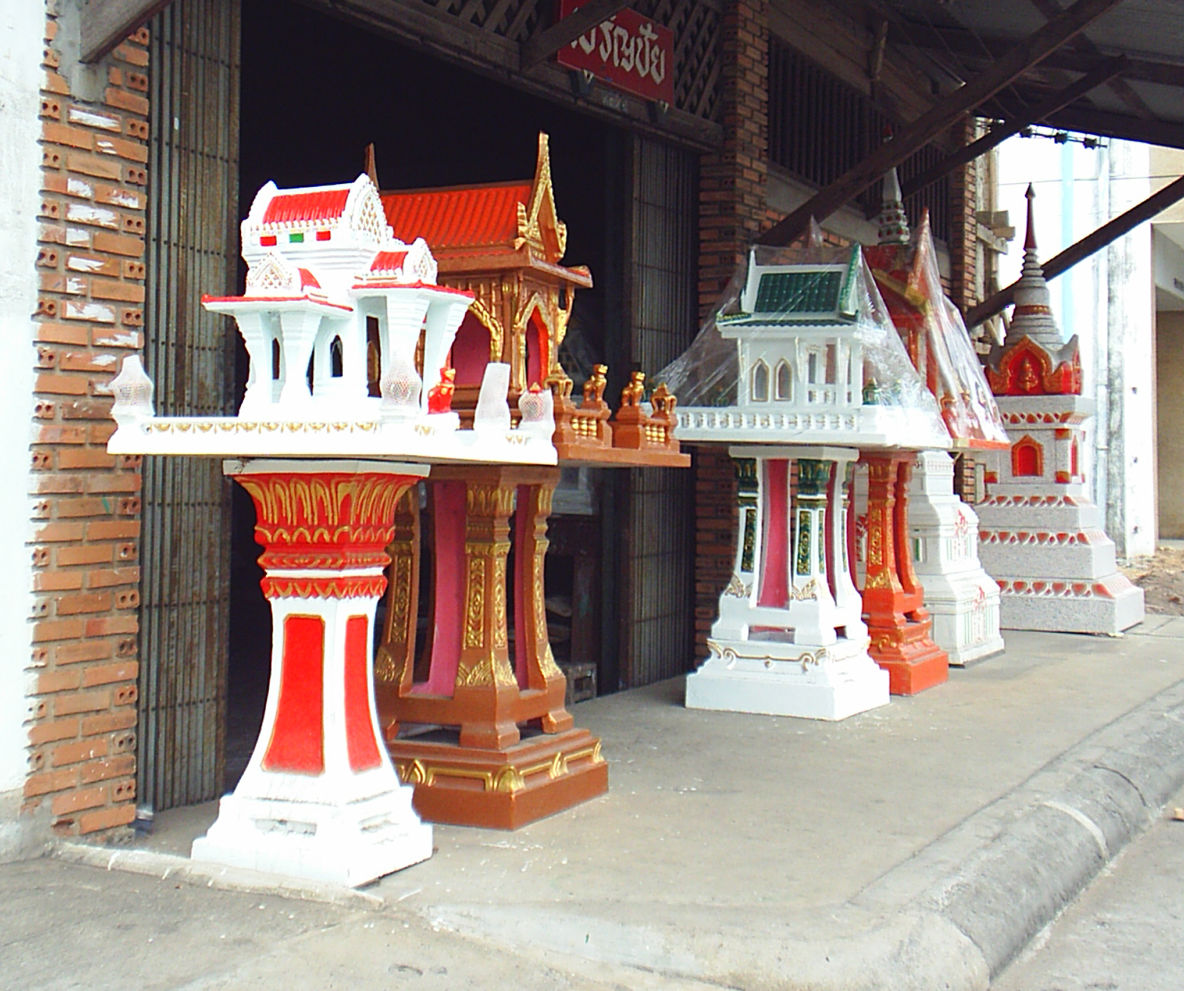 Discarded spirit houses at Wat Nong Bua, Ubon Ratchathani, Thailand. Picture taken by User:Markalexander.